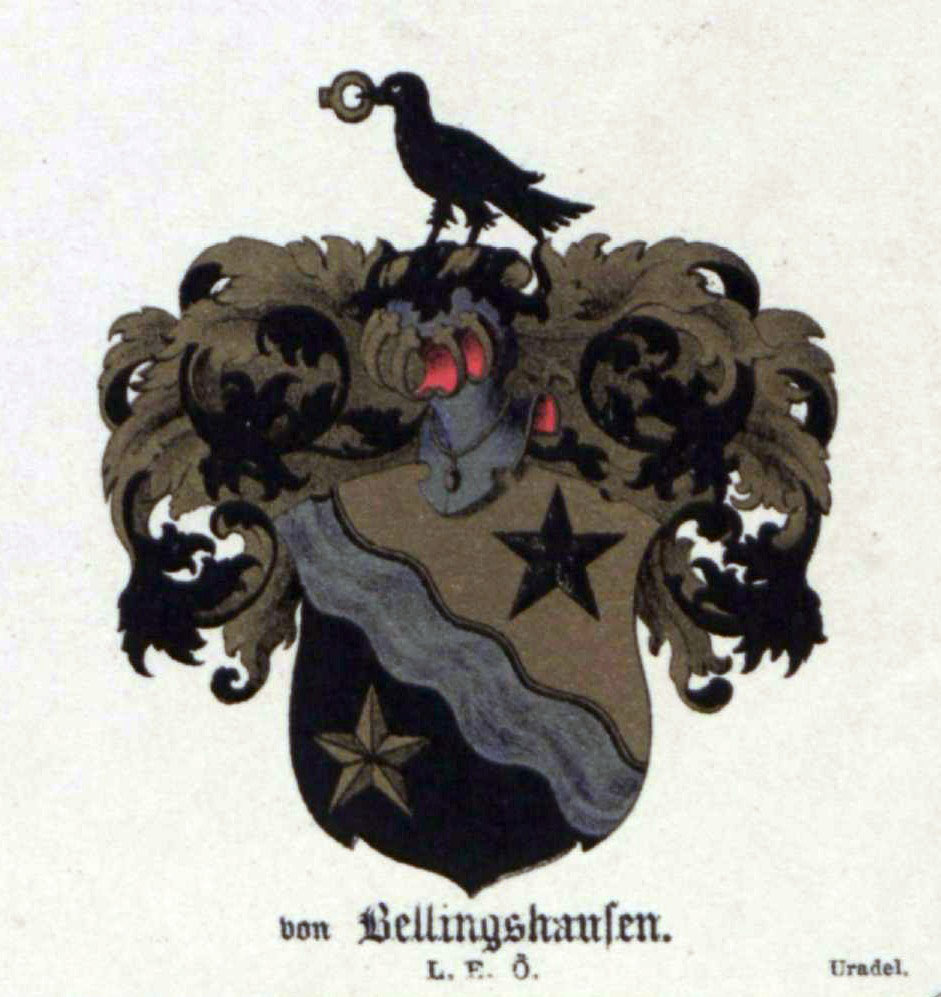 Bellingshausen family coat of arms